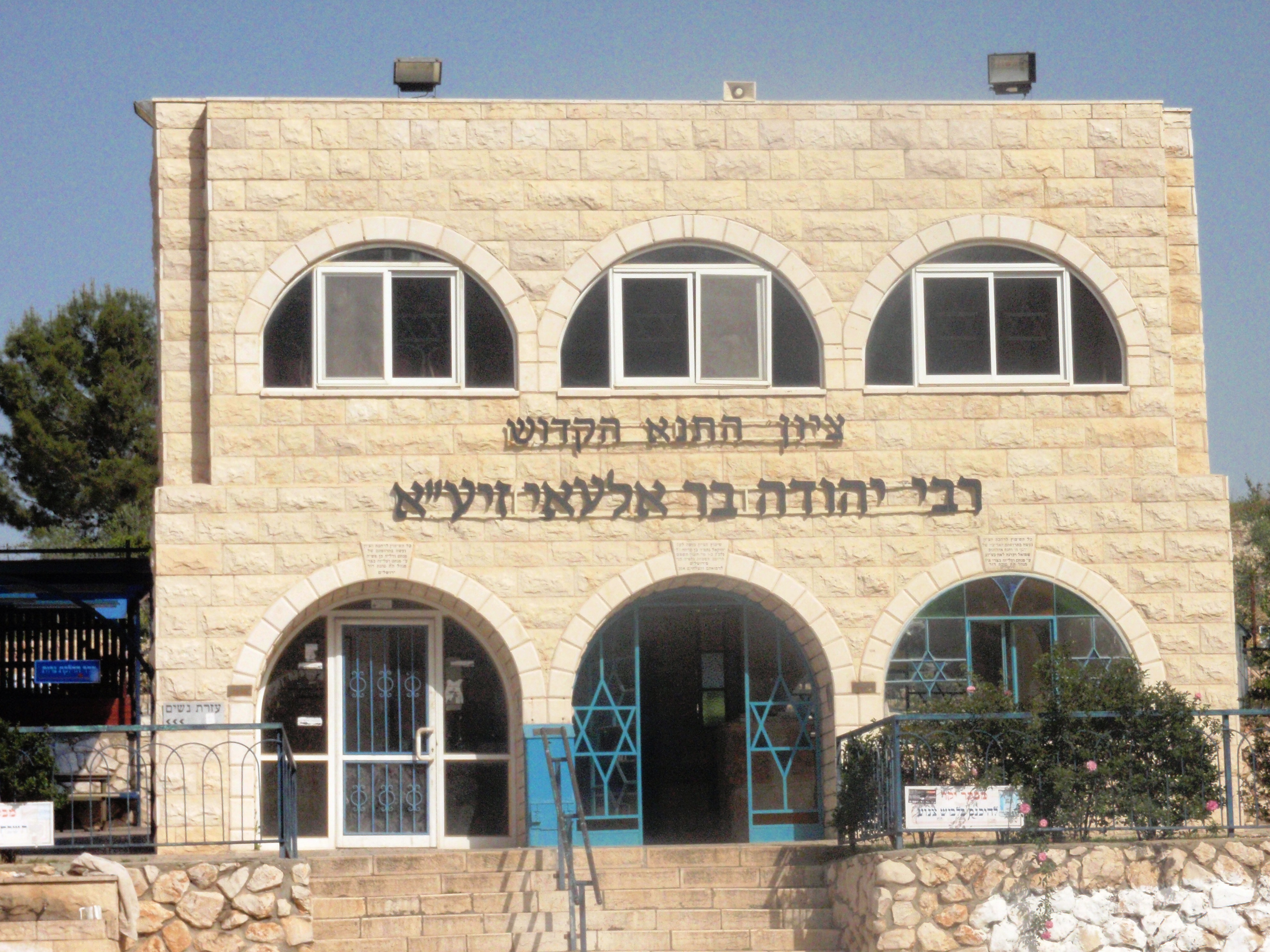 Tomb Hatana Rabbi Yehuda bar Ilai near Safed